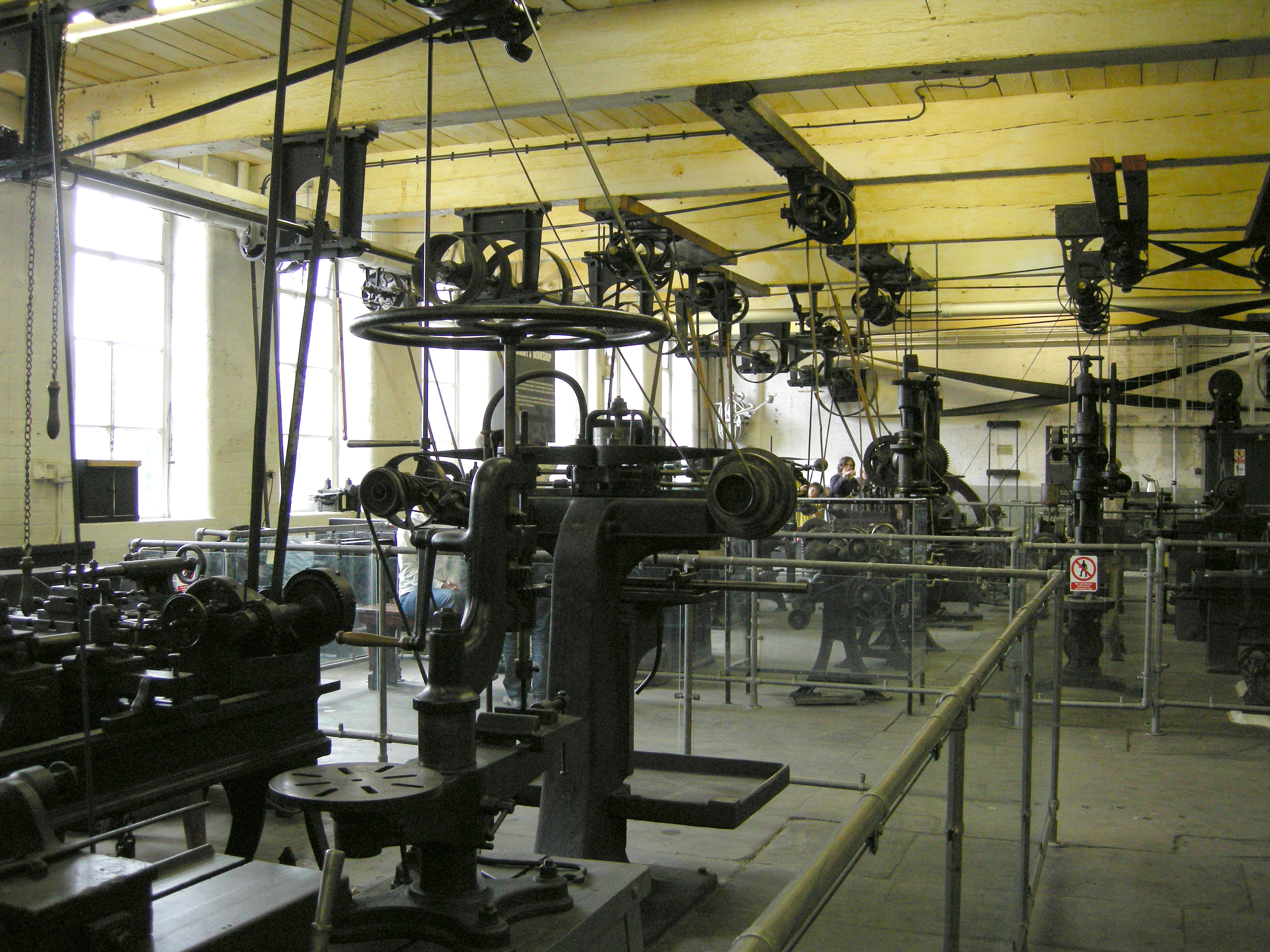 Machines in motive power room with power relay system on ceiling in Bradford Industrial Museum, Bradford, West Yorkshire, England. 53.48'.40".N; 1.43'.16".W.